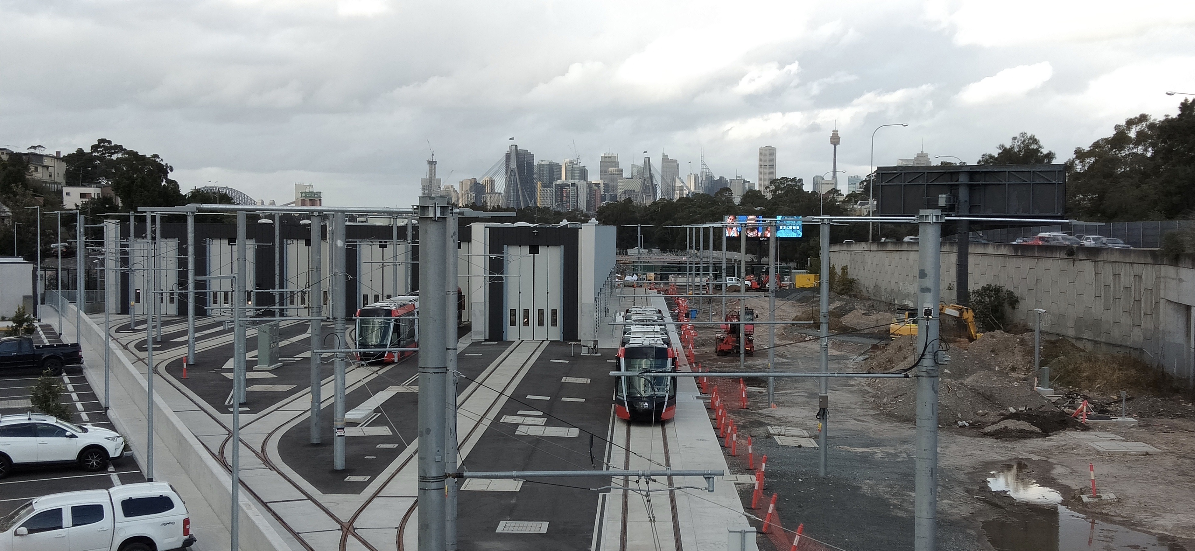 Lilyfield light rail maintenance centre, situated on the site of the Rozelle Rail Yards, in 2019. The depot was built for the CBD&SE light rail. A junction west of Lilyfield station connects it to the Dulwich Hill Line.